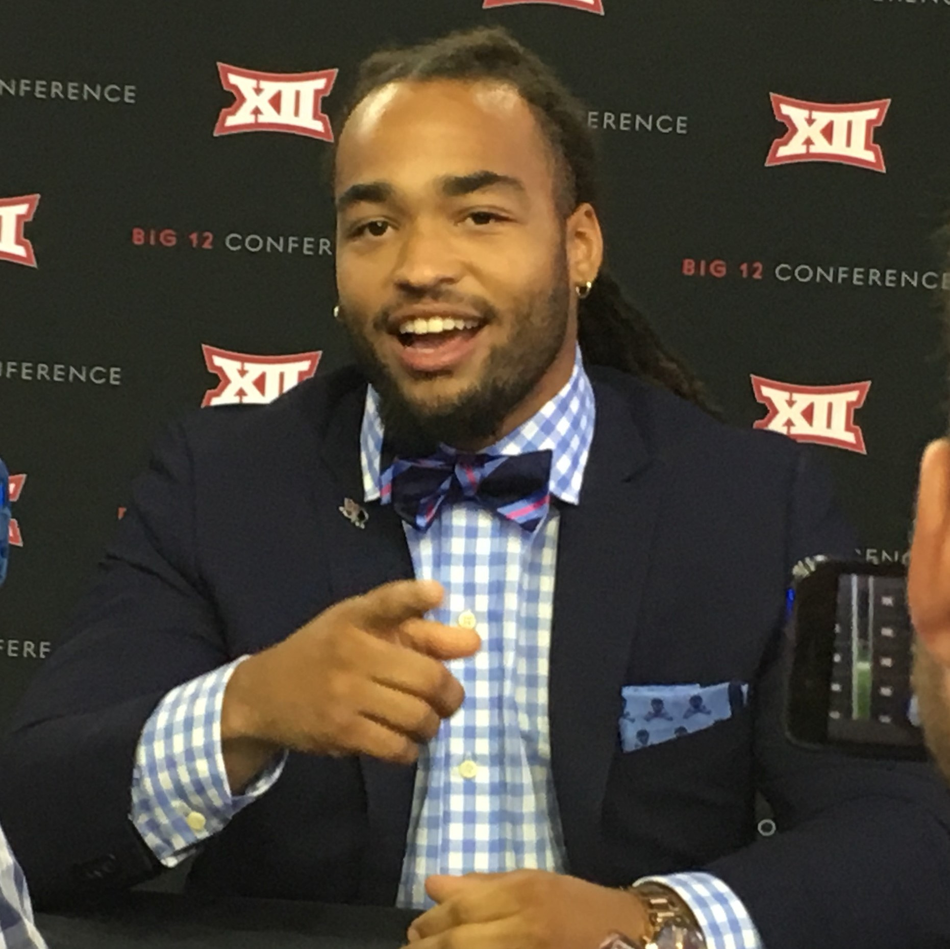 Dakota Allen, linebacker for the Texas Tech Red Raiders football team, at the 2018 Big 12 Conference Media Days in Frisco, Texas.